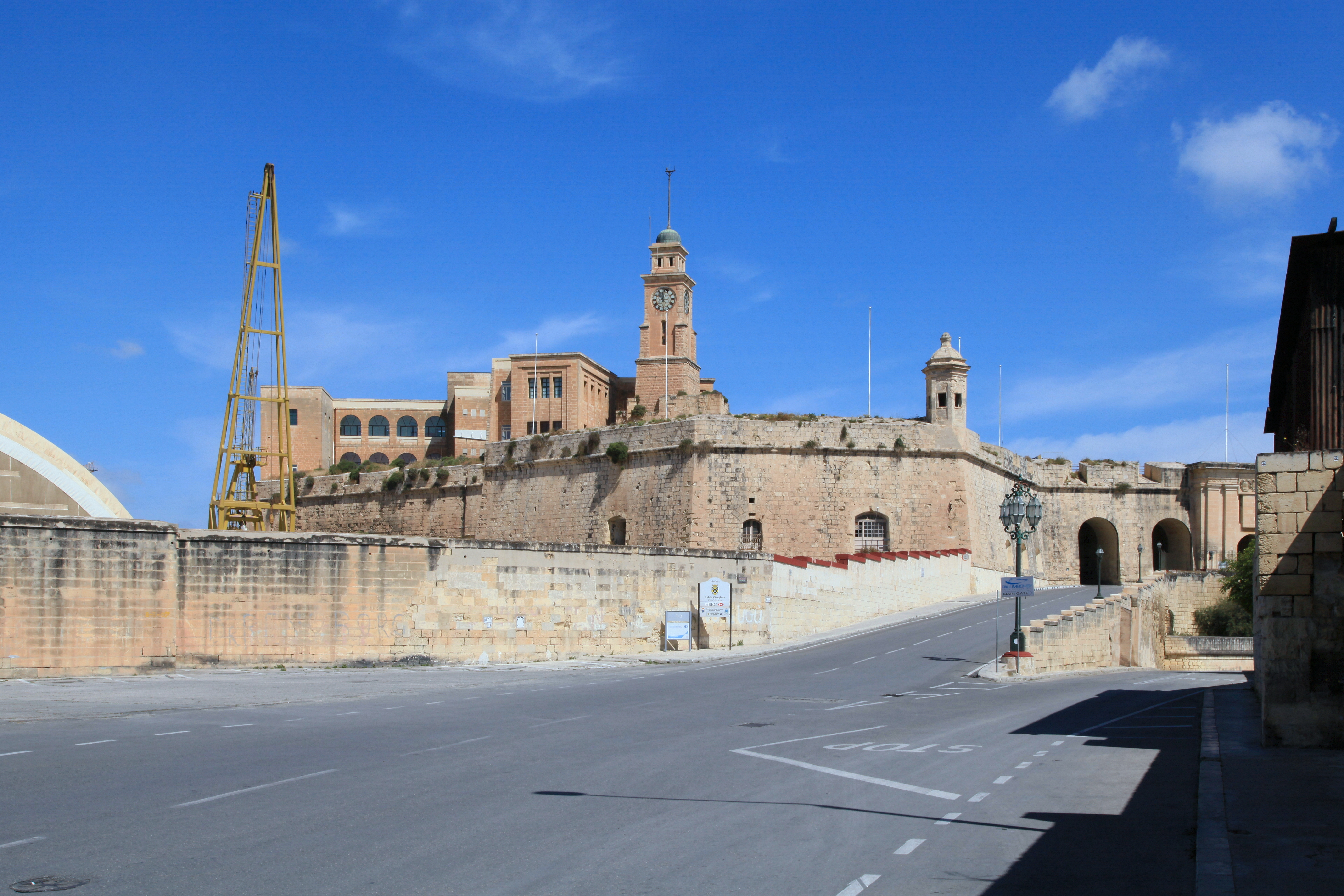 Fort Saint Michael and the Main Gate at Triq il-Mons. Panzavecchia in Senglea, Malta